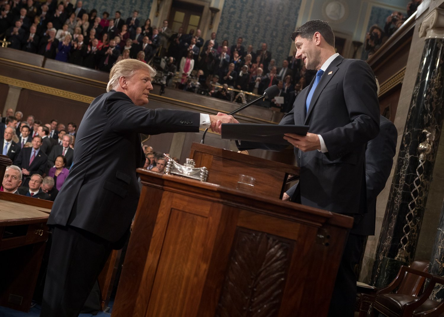 President Donald Trump shaking hands with Speaker of the House Paul Ryan at his February 28, 2017 address to a joint session of Congress.